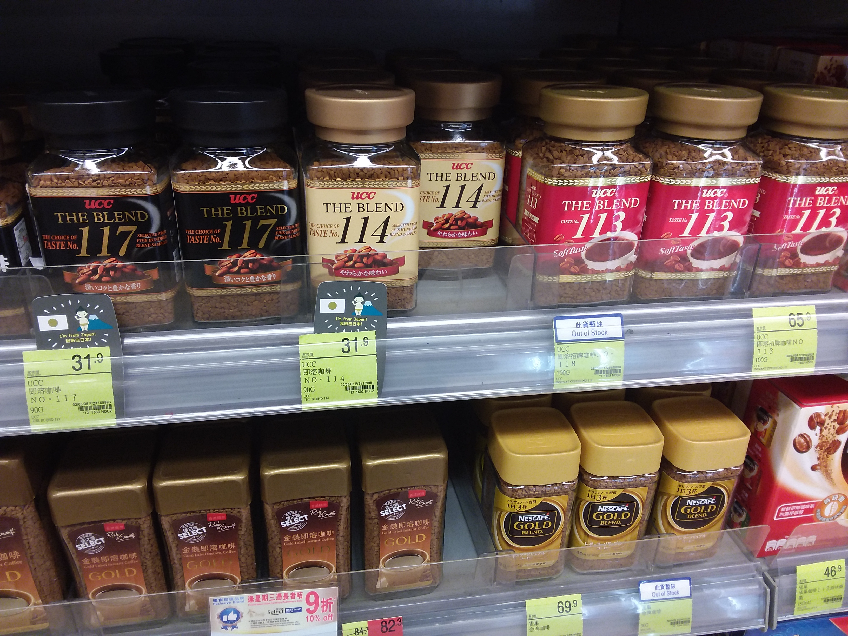 HK QB 鰂魚涌 Quarry Bay 英皇道 King's Road 康山道 Kornhill Road 康怡廣場 Kornhill Plaza shop Fusion store April 2020